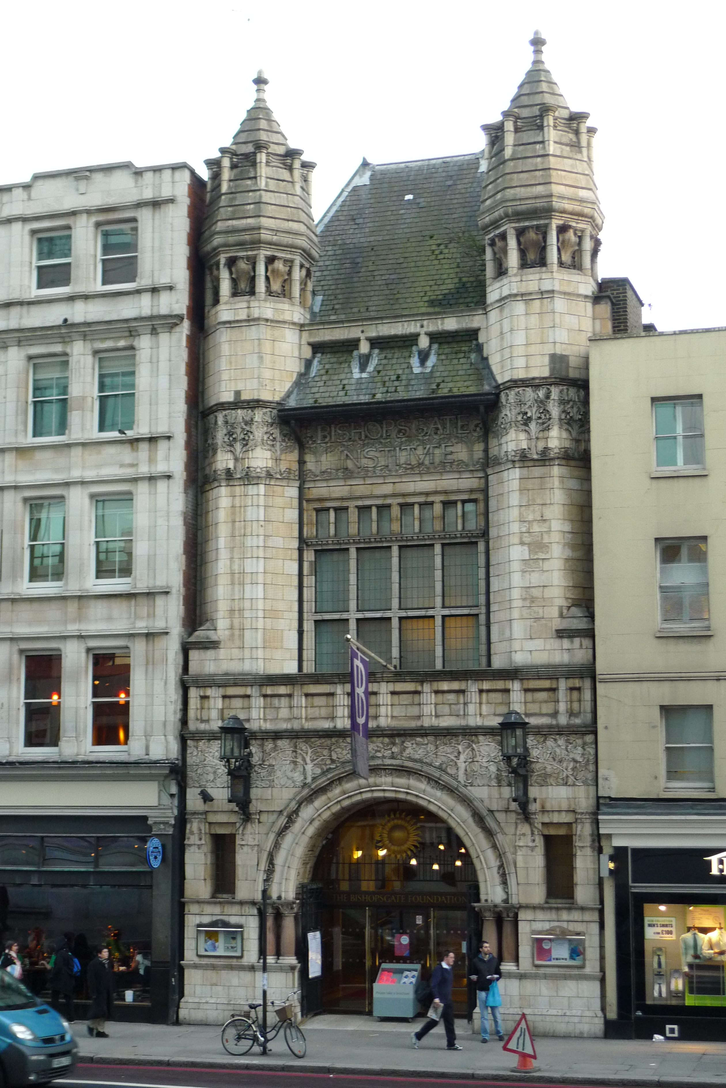 The Bishopsgate Institute (arch. Charles Harrison Townsend, 1895).